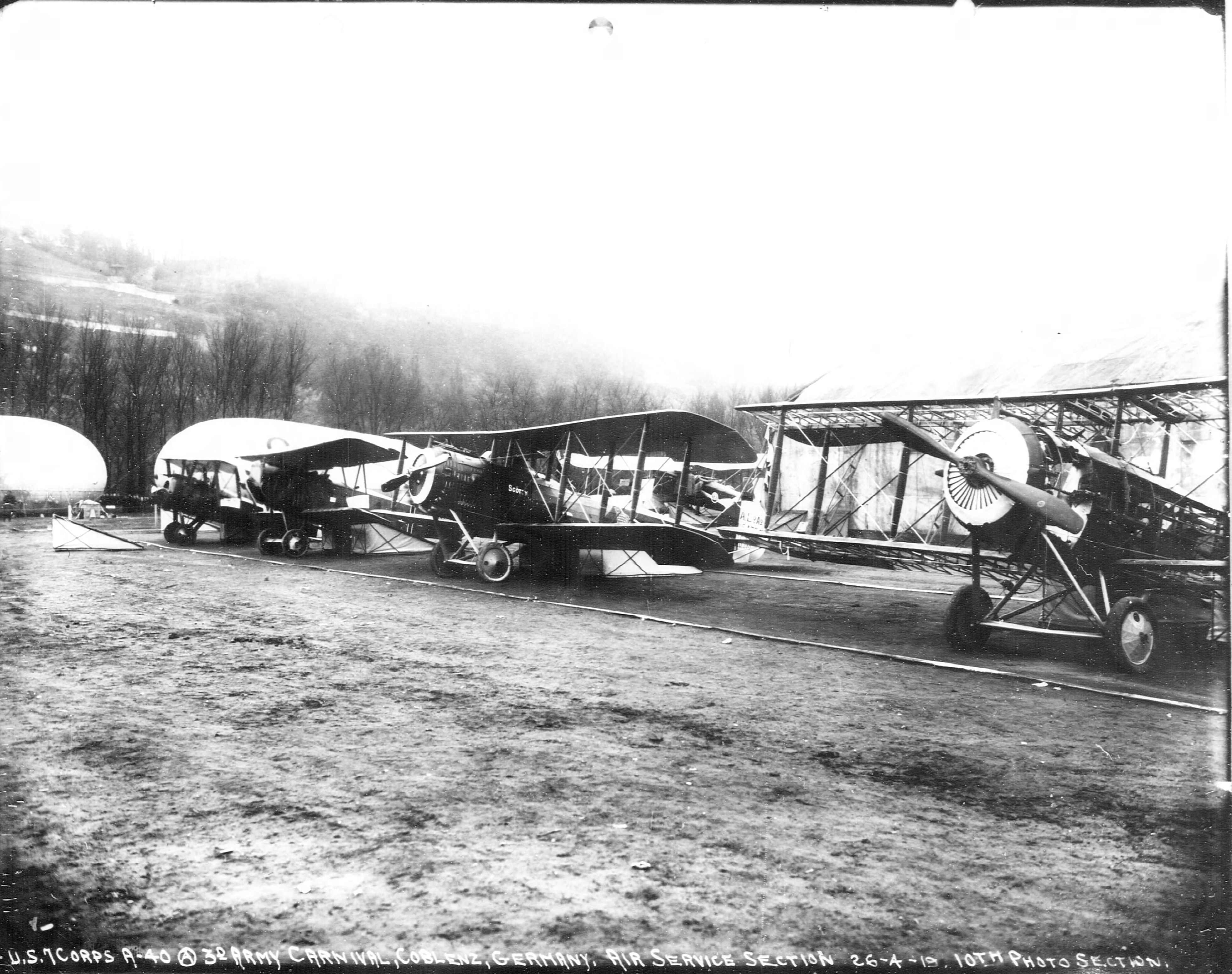 Salmson 2A.2 of the 1st Aero Squadron on display at the Third Army Coblenz Air Show inApril 1919, next to a Fokker D.VII and a Sopwith Camel